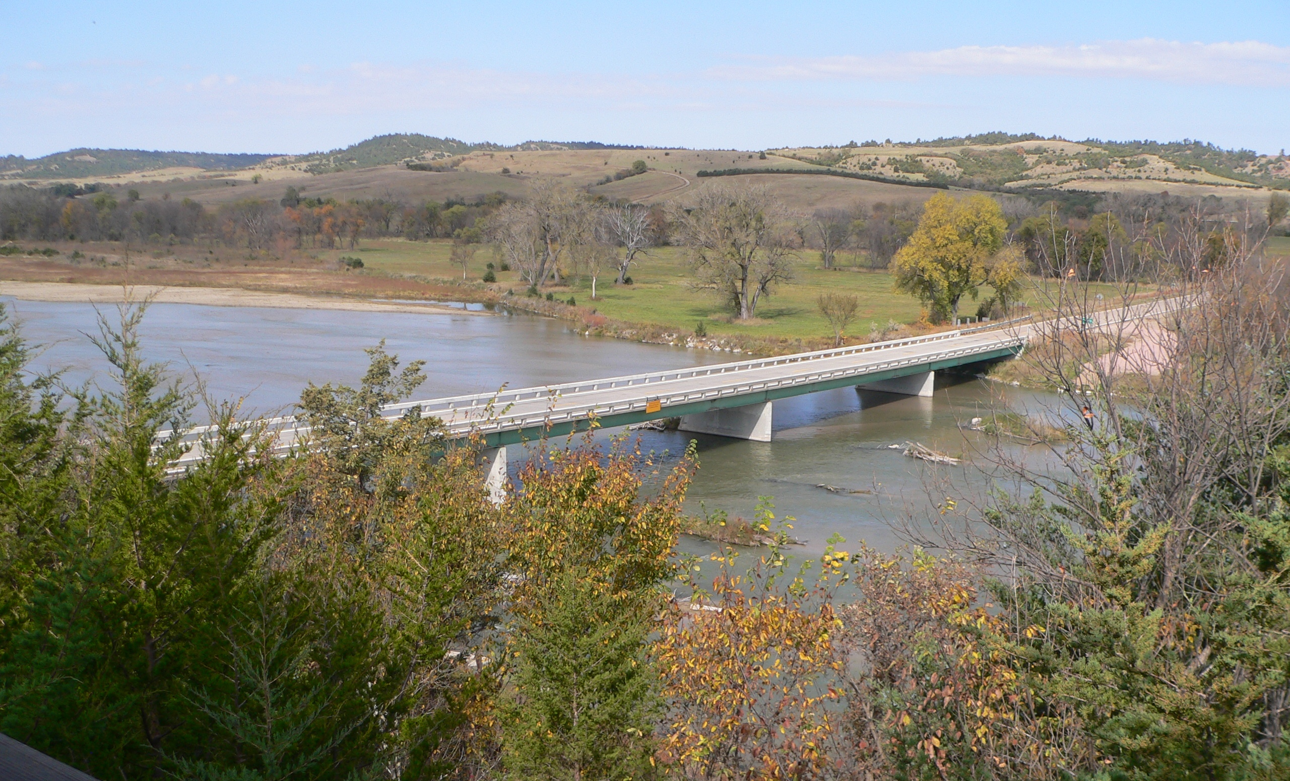 Niobrara River at Nebraska Highway 7 crossing. The photo was taken from an overlook in Fred Thomas Wildlife Management Area in Rock County, south of the river. Upstream is left.